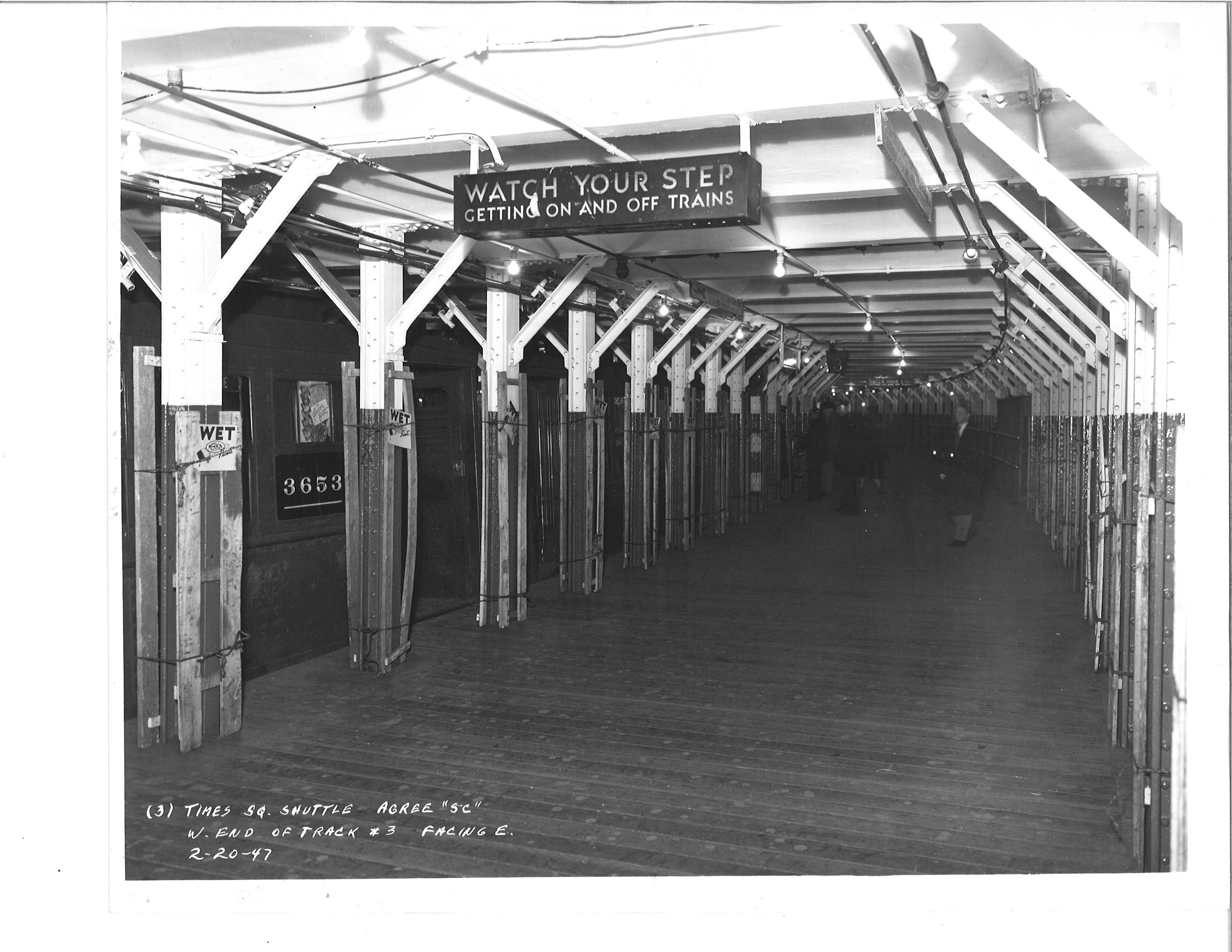 Taken on February 20, 1947